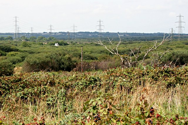 Tregoss Moor. Looking from the roadside at the southeastern end of the moor, this photo was taken from just outside the grid square. The house in the middle of the vegetation is Tregoss Mill.